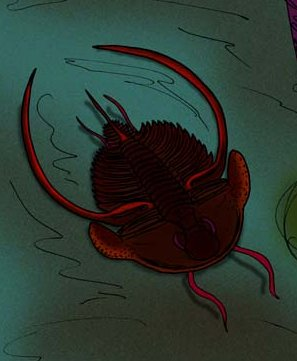 Crop of file in filename